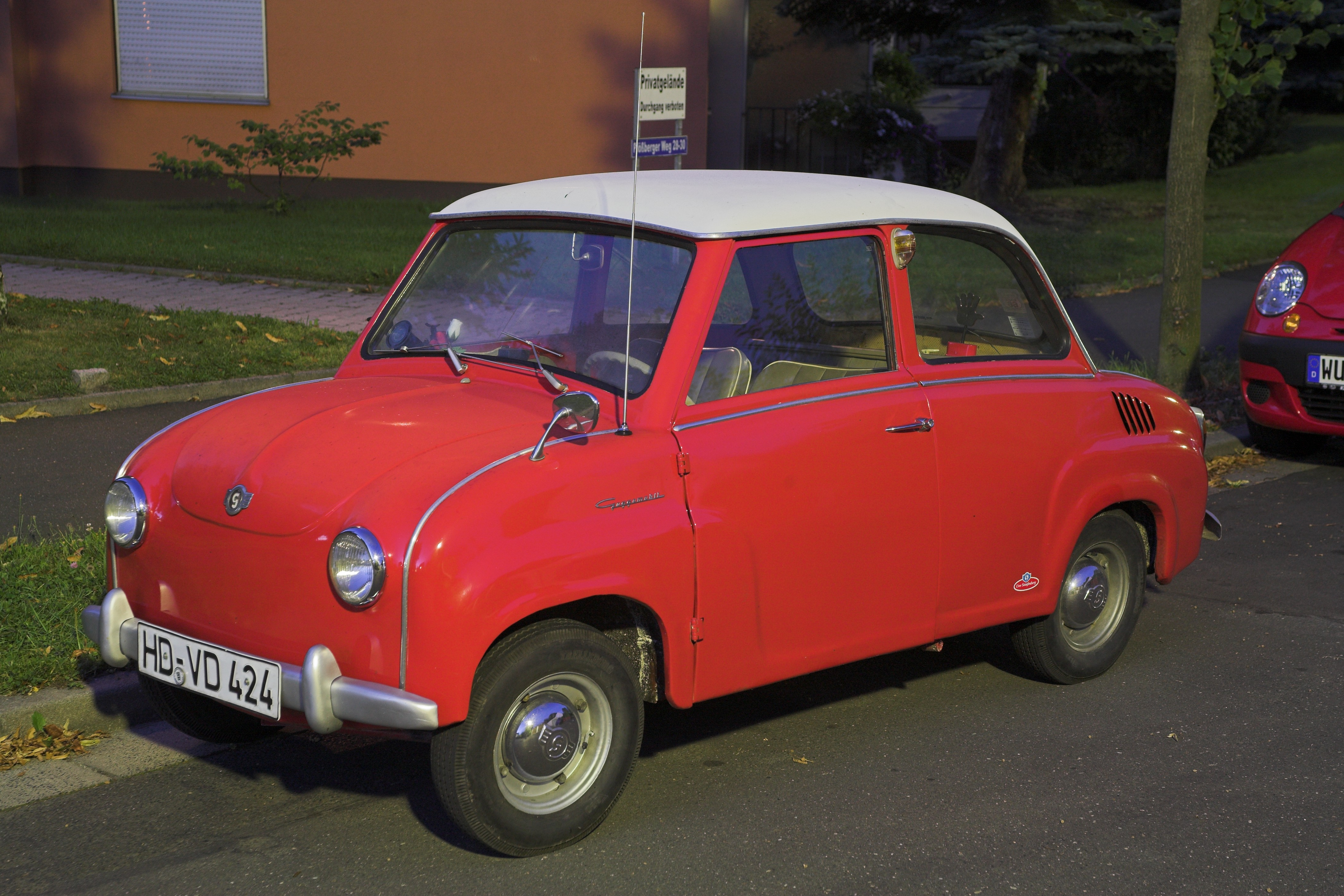 Goggomobil